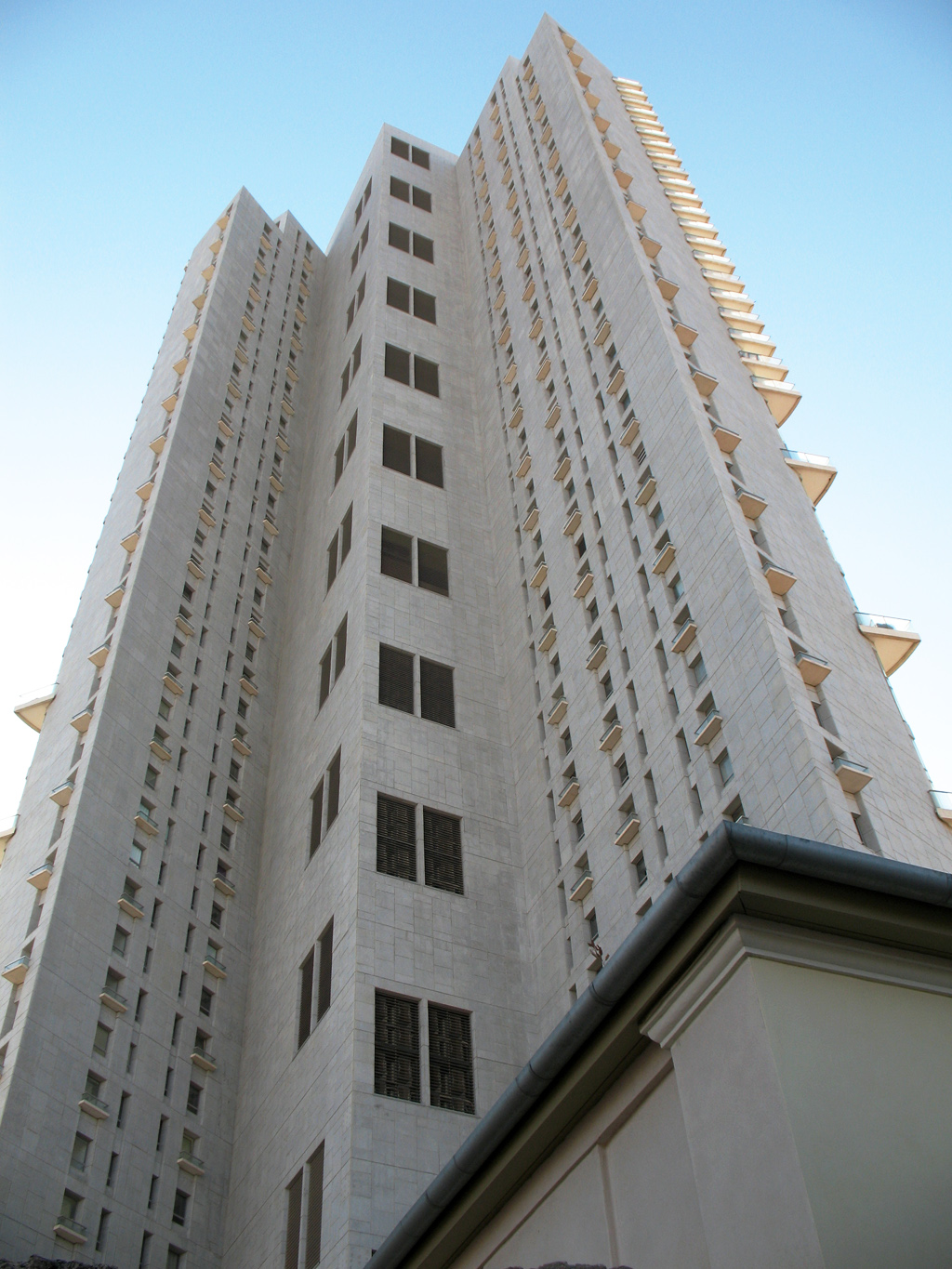 Neve Tzedek Tower as seen from the back and not-so-well designed side.